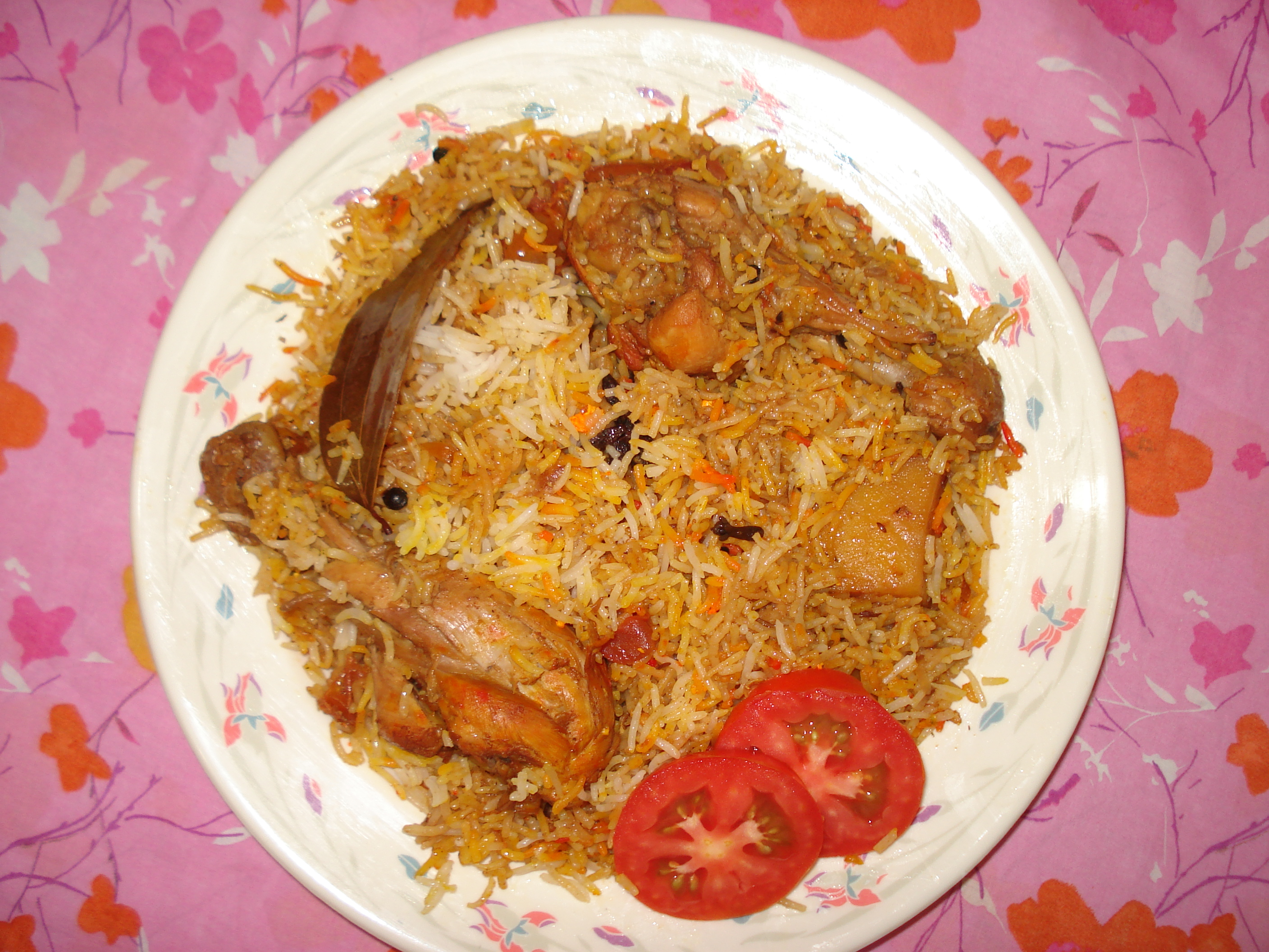 Bombay Biryani is one of the most famous rice dish in Pakistan